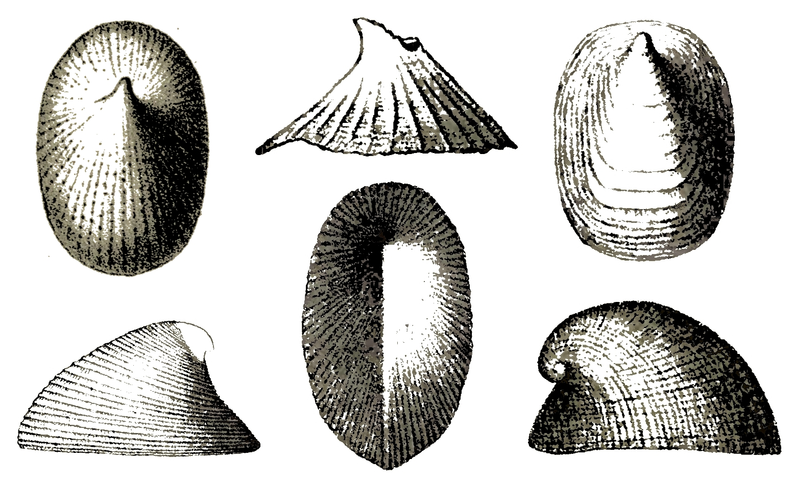 Cocculiniformia various examples